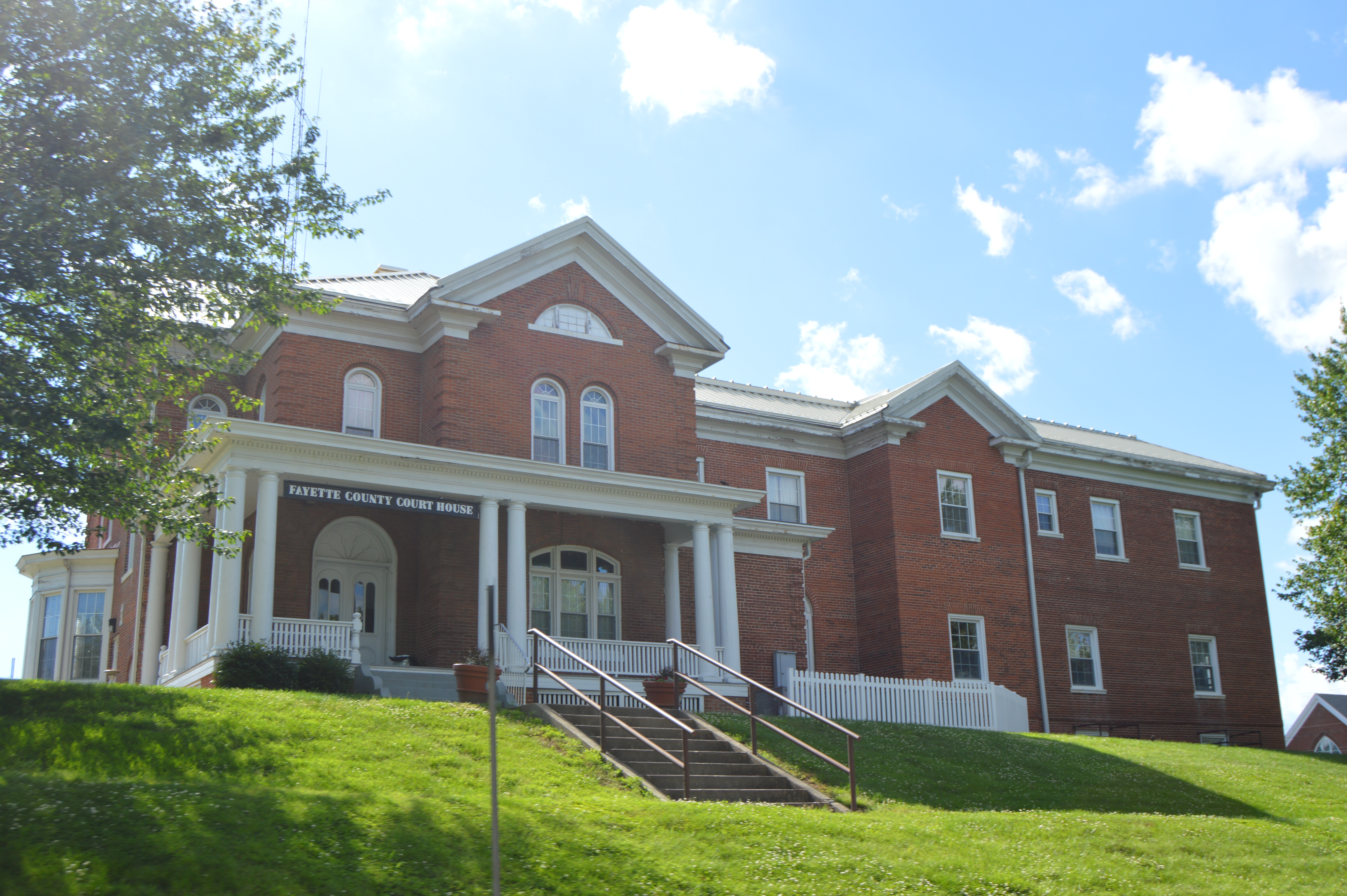 Eastern front of the Fayette County Courthouse (originally a residence), which occupies the block bounded by Gallatin, Seventh, Johnson, and Eighth Streets in Vandalia, Illinois, United States.